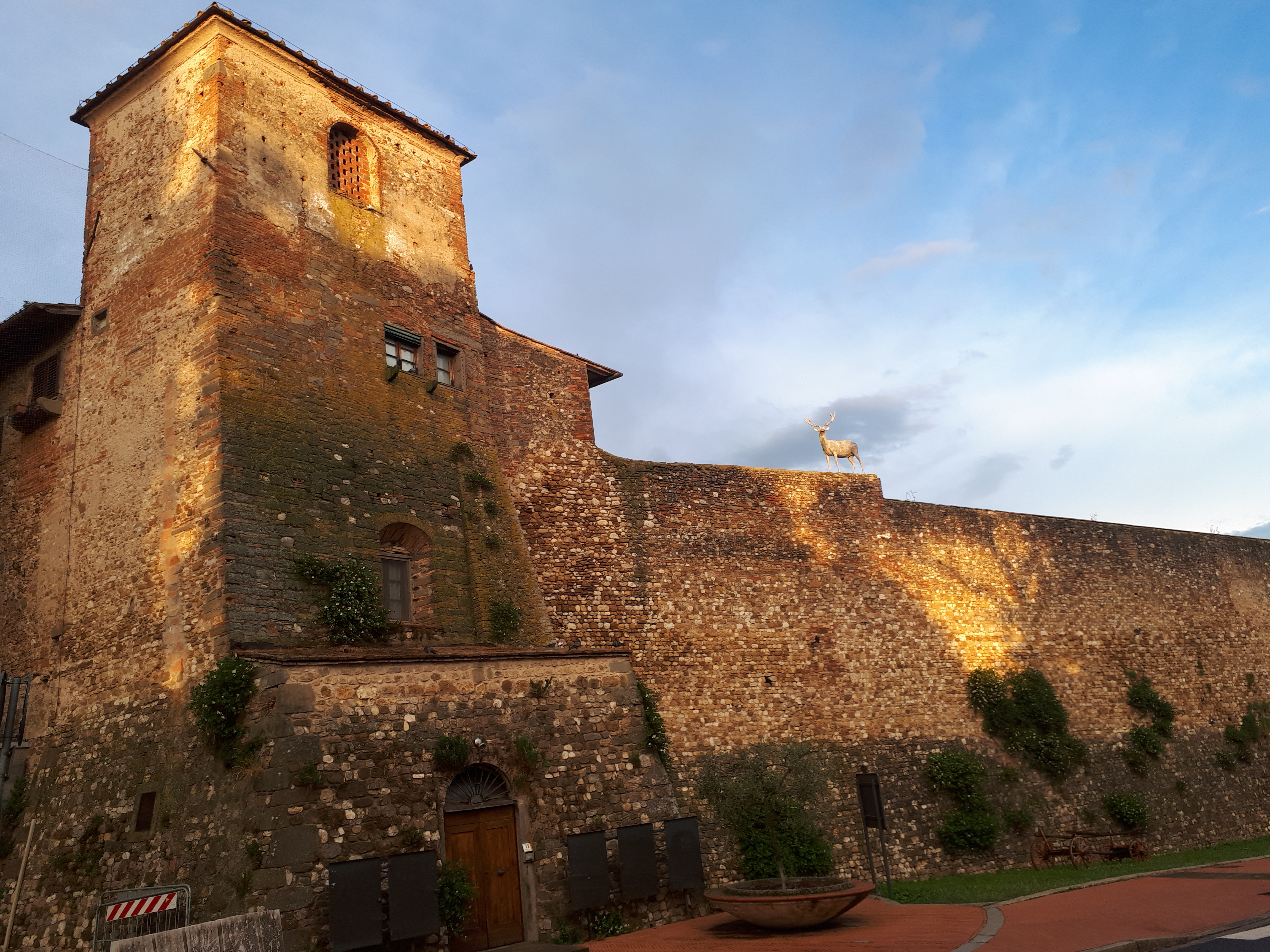 San Casciano Val di Pesa (Italy) - the walls